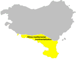 Climat mediterraine in the Basque Country or Euskal Herria